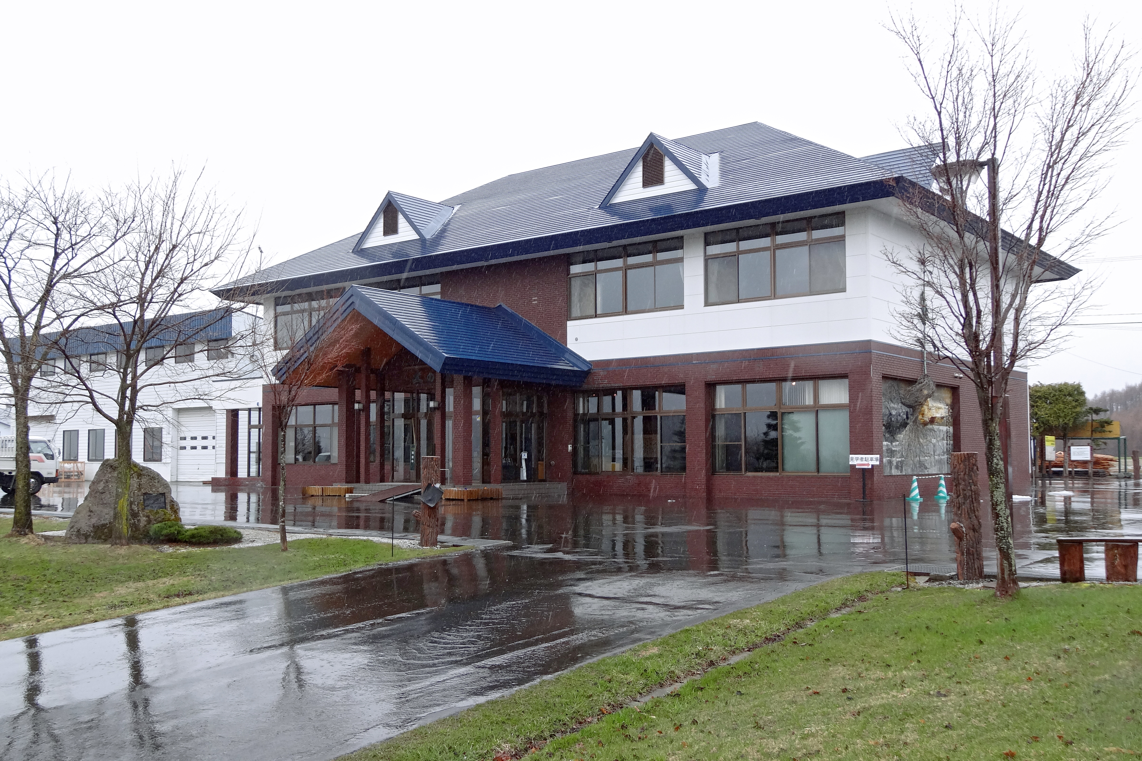 Museum of Soils and Plows of the World in Kamifurano, Hokkaido prefecture, Japan.